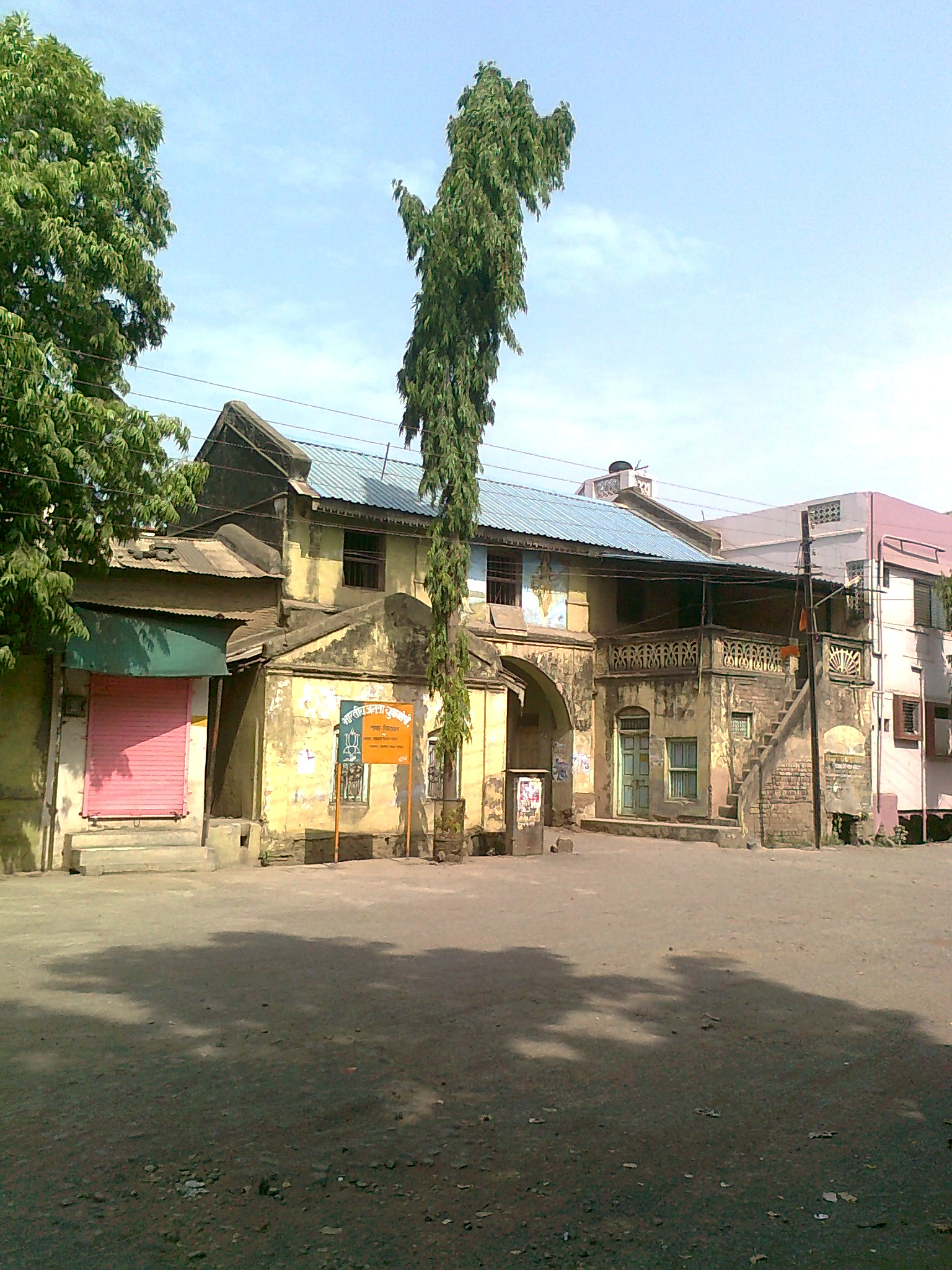 Village gate of Chinawal village, India